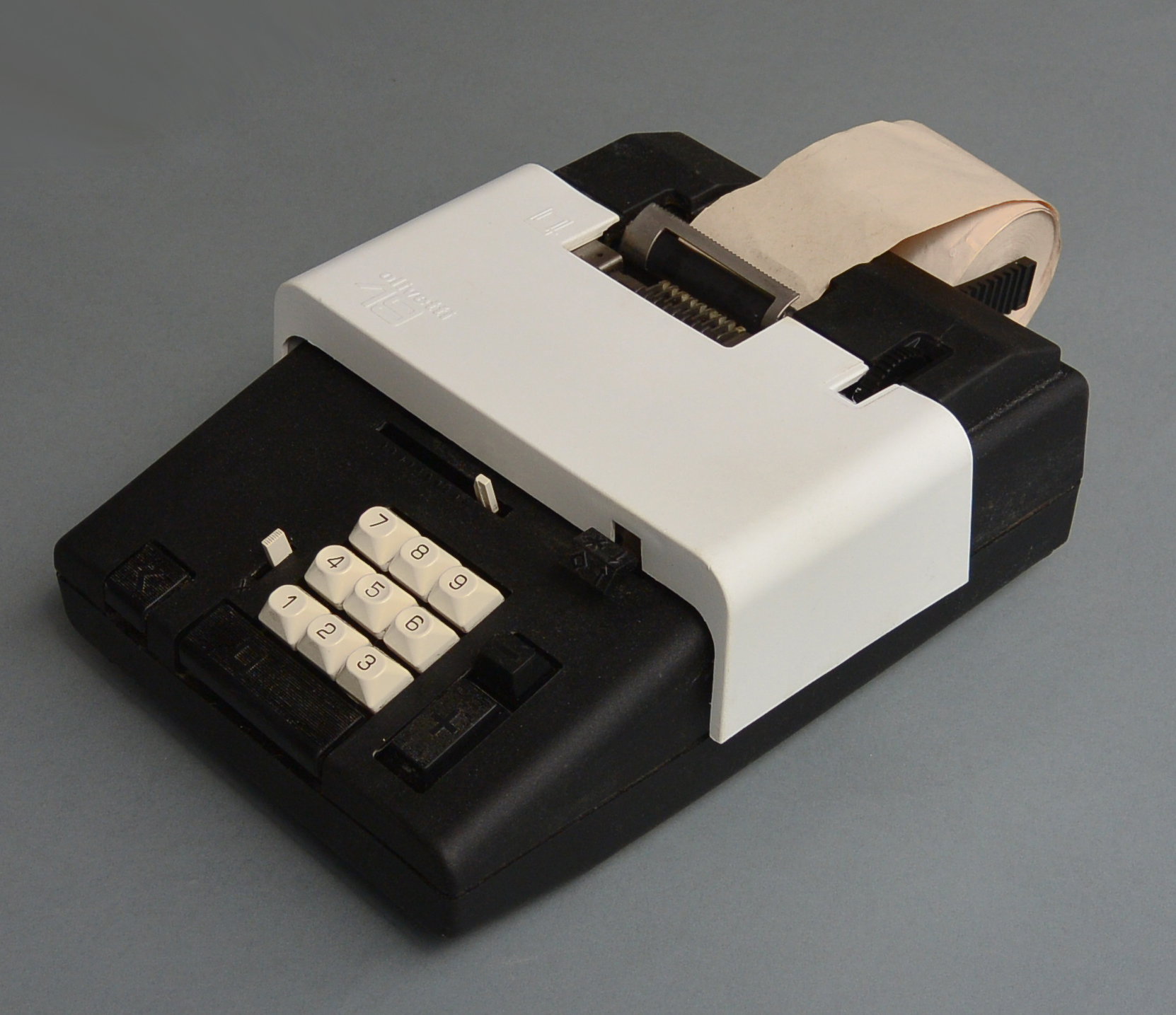 Olivetti Summa 19 designed by Ettore Sottsass